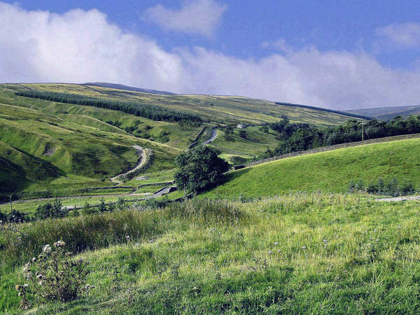 Coverdale at Coverhead A view of the road leading out of Coverdale towards the steep descent of Park Rash into Kettlewell